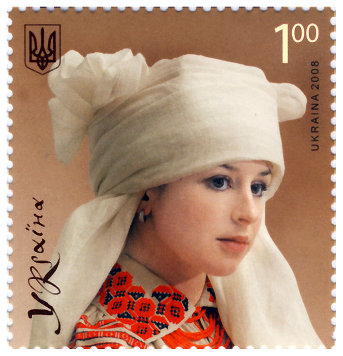 Traditional Headdress of Ukraine: Namitka, from Rivne